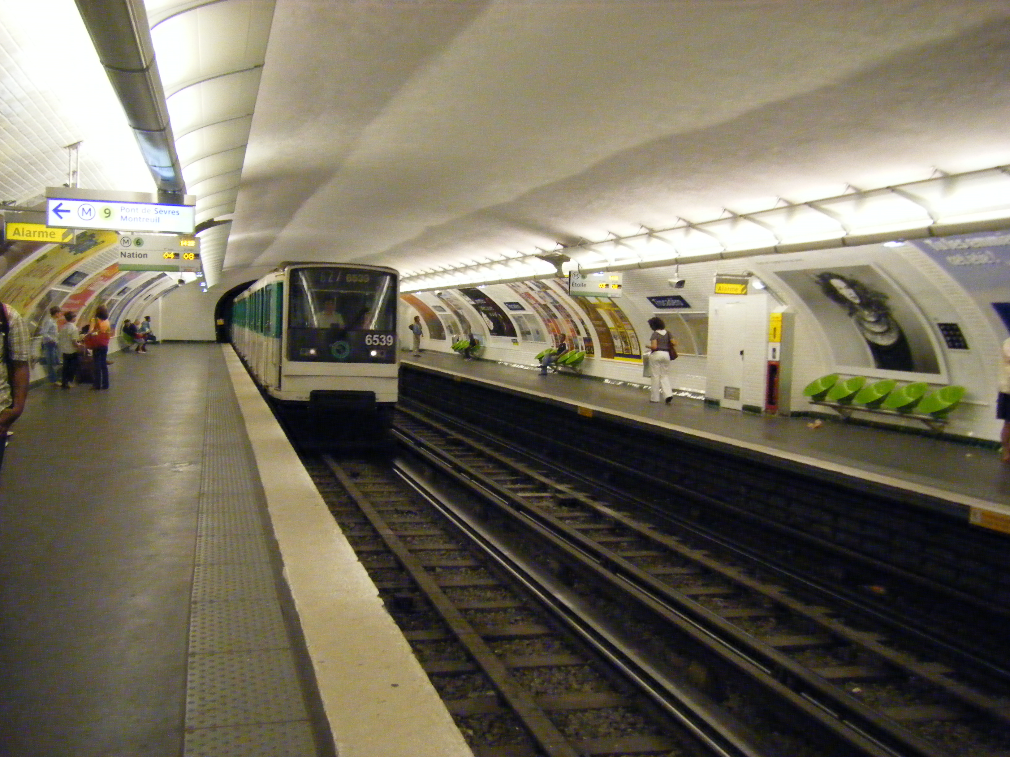 Subway of Paris. line 6 (Trocadéro)